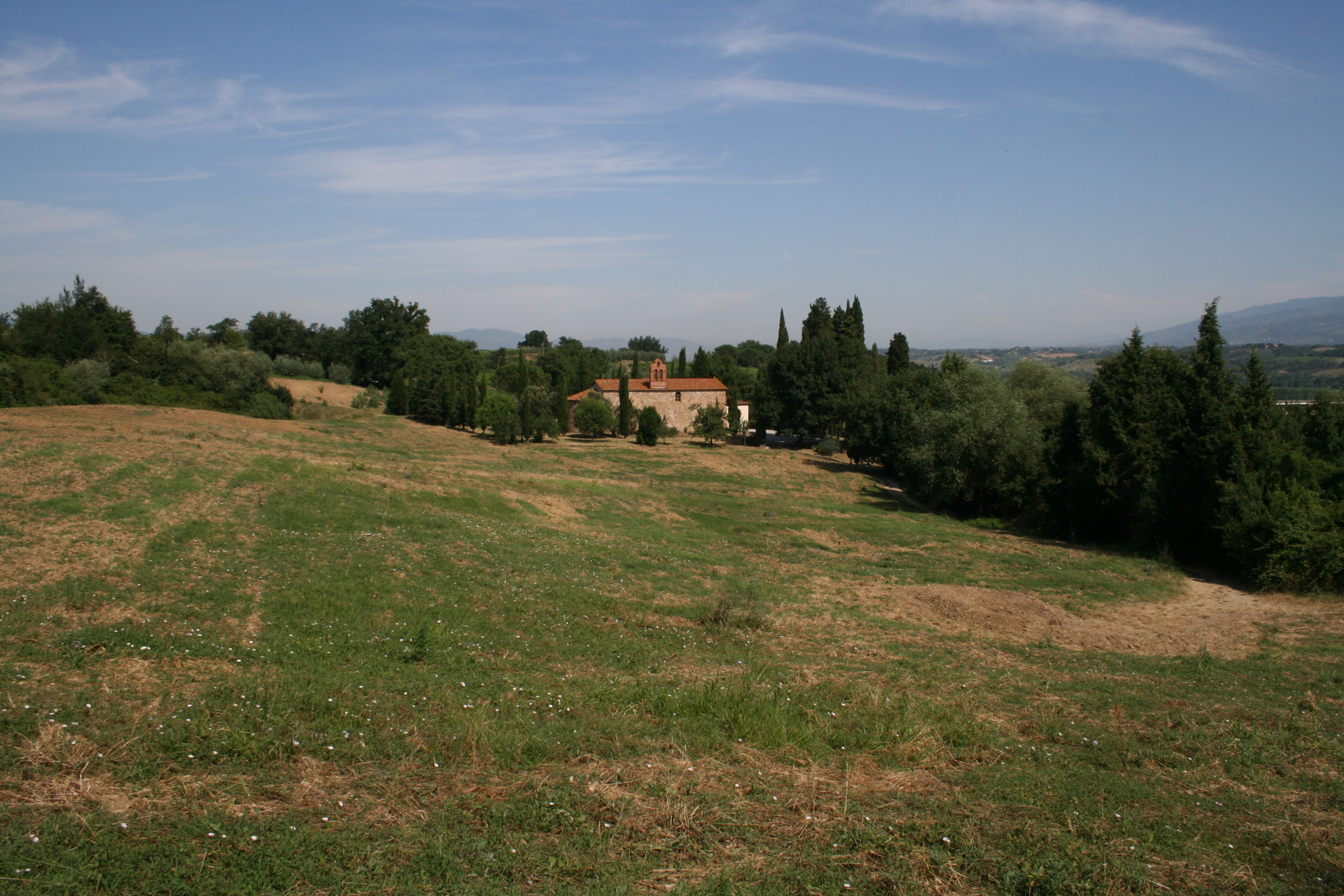 The plain of Castelvecchio on Monteleoni Hill that untill XIII century was occupied by the Leona Castle in Levane